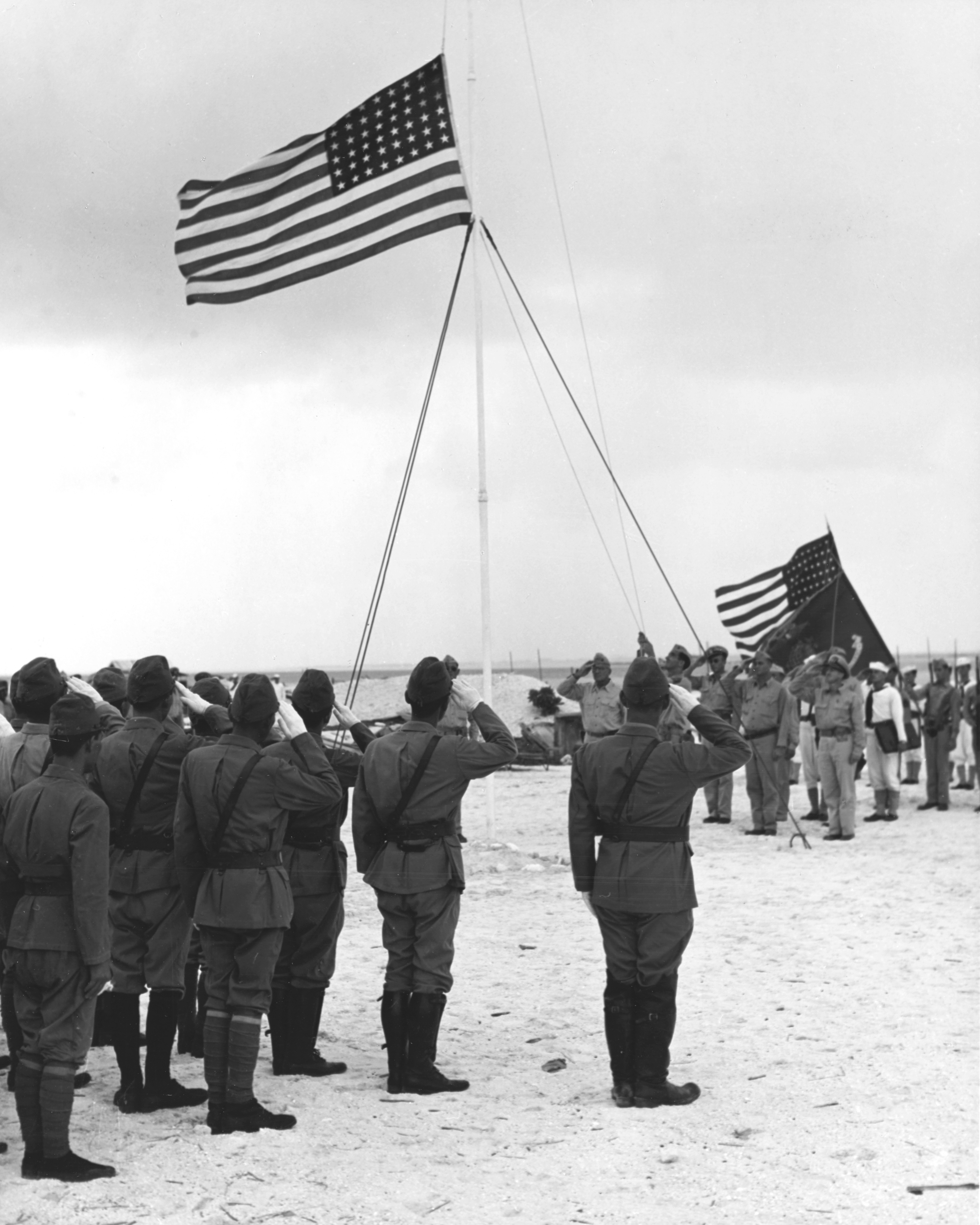 Surrender of Wake Atoll, 4 September 1945: Raising the U.S. flag over Wake Island on 4 September 1945, as a U.S. Marine Corps bugler plays "Colors". This was the first time the Stars and Stripes had flown over Wake since its capture by the Japanese on 23 December 1941. The officer saluting in the right foreground is Rear Admiral Shigematsu Sakaibara, Japanese commander on Wake. Colors carried by the U.S. party, right background, include the U.S. Marine Corps flag.